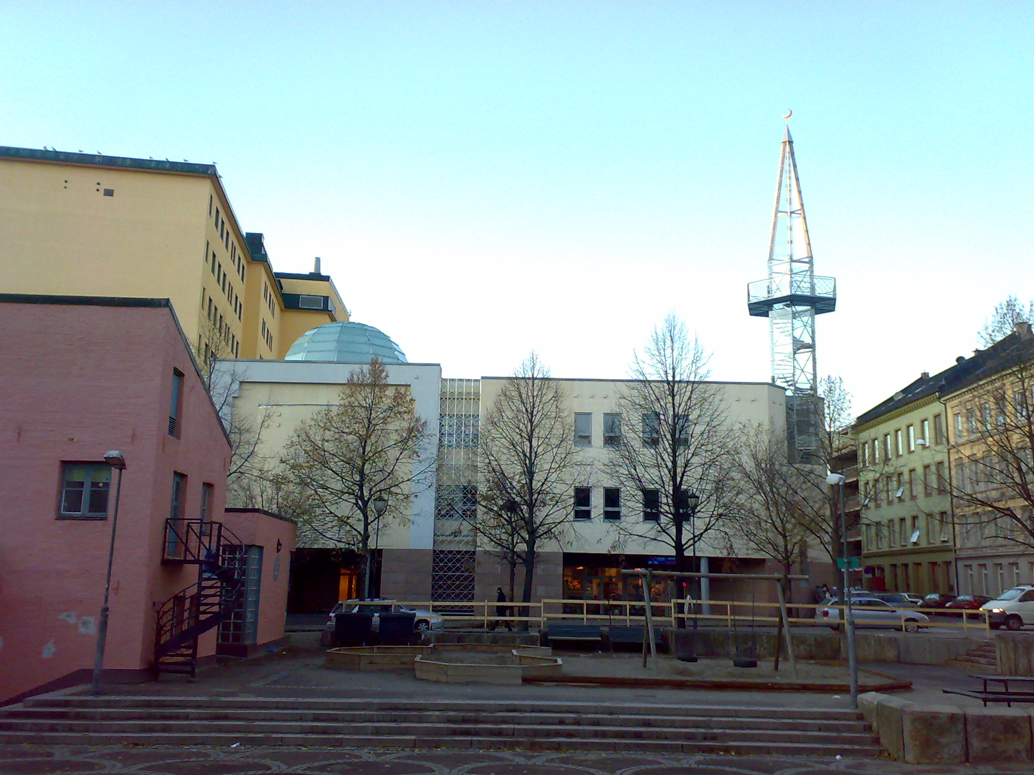 Central Jamaat-E Ahl-E Sunnat mesque, in area Grönland (Urtegata), Oslo, Norway